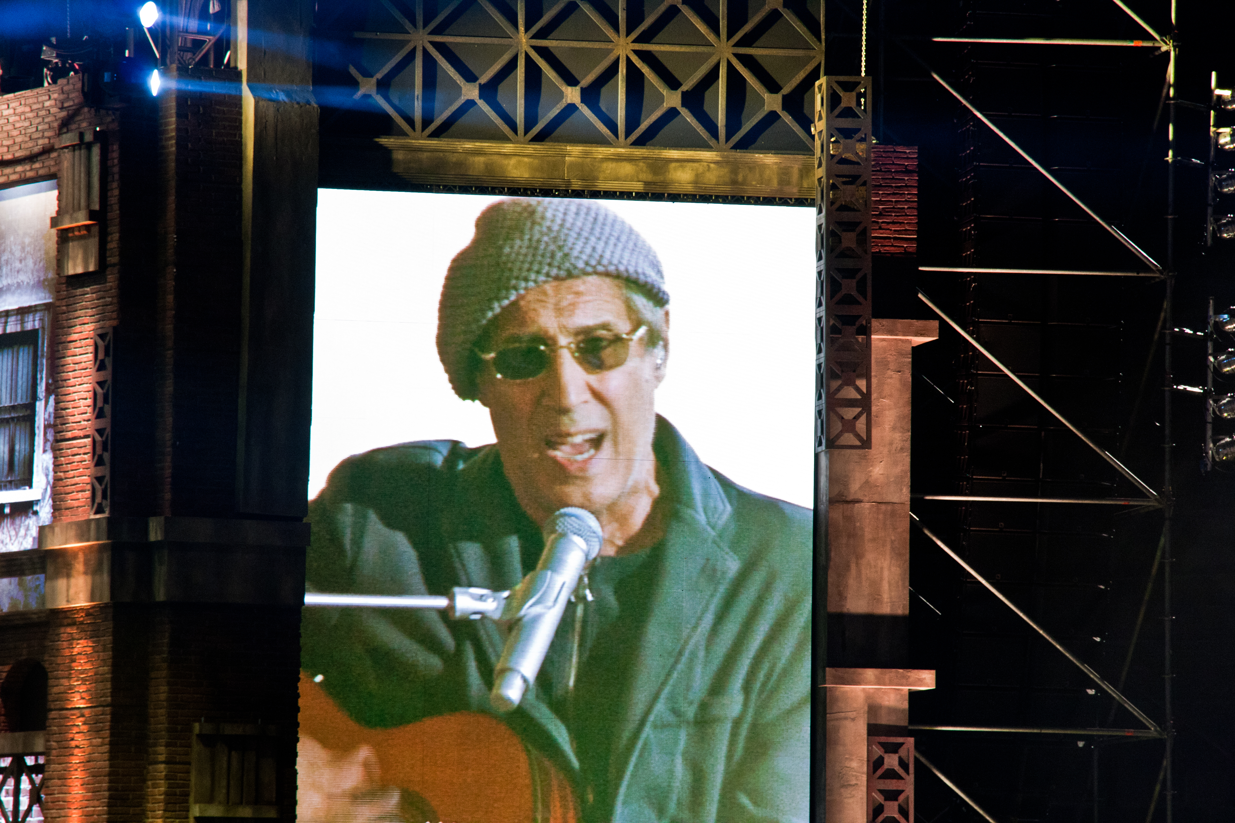 Adriano Celentano. Live in Verona.